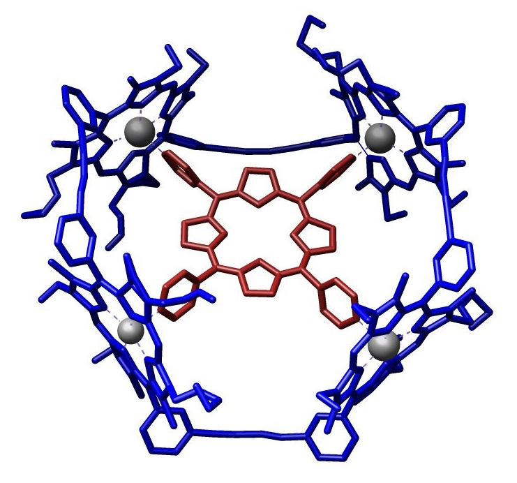 This is a picture generated from crystal structure data reported by Sally Anderson, Harry L. Anderson, Alan Bashall, Mary McPartlin, Jeremy K. M. Sanders in Angewandte Chemie International Edition in English, Year 1995, Volume 34, Issue 10, Pages 1096-1099. It shows a porphyrin guest bound within a four zinc porphyrin macrocyclic host. It was made by myself and is free to be used by all.